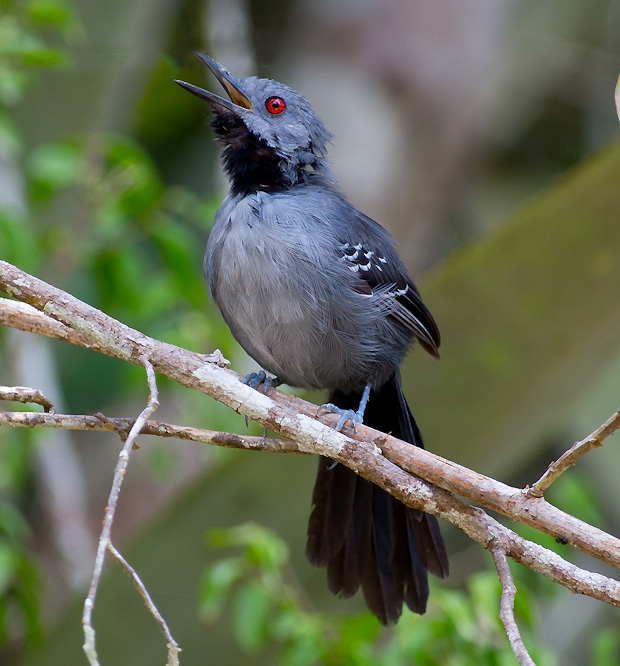 Slender Antbird Rhopornis ardesiaca